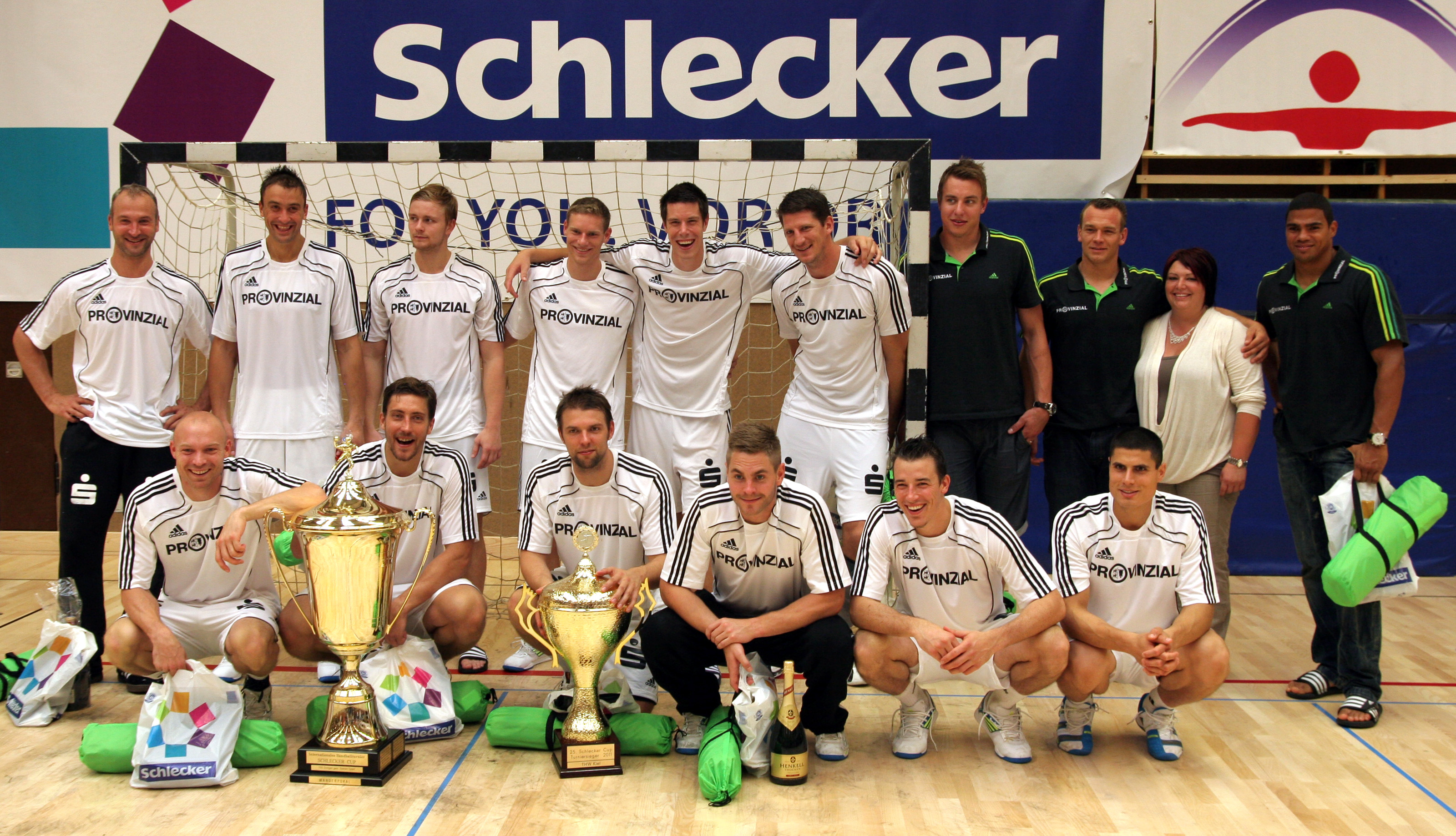 The team of THW Kiel, on August 21st, 2011 in Ehingen (Germany).